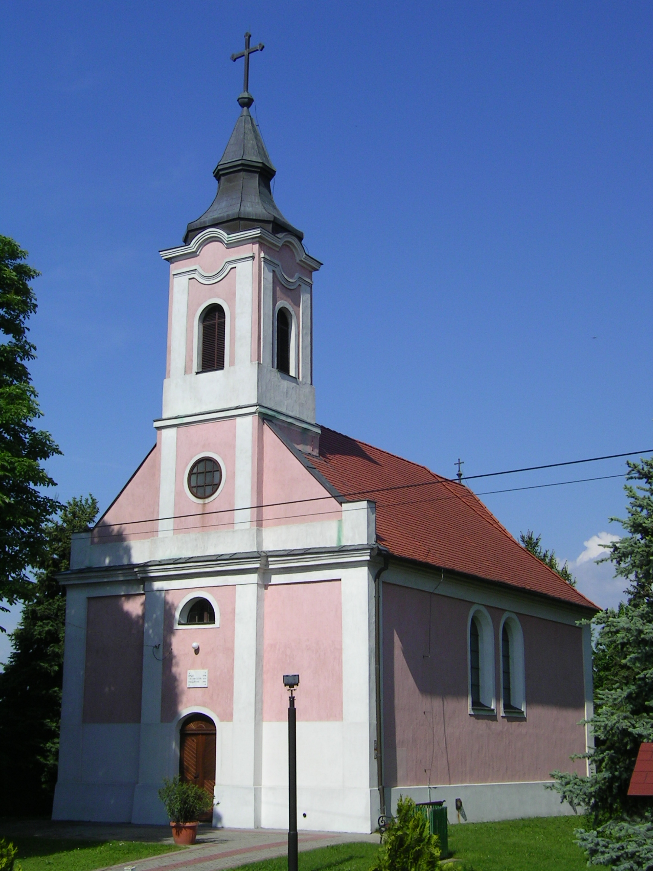 Roman catholic church in Udvar, Hungary